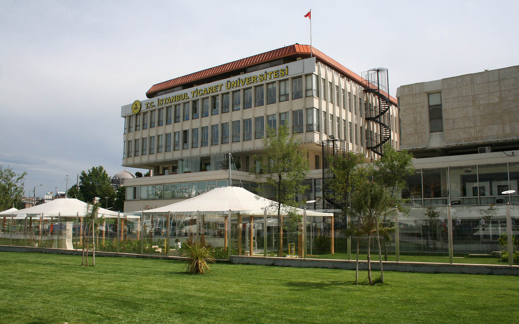 Istanbul Commerce University, Eminonu Campus